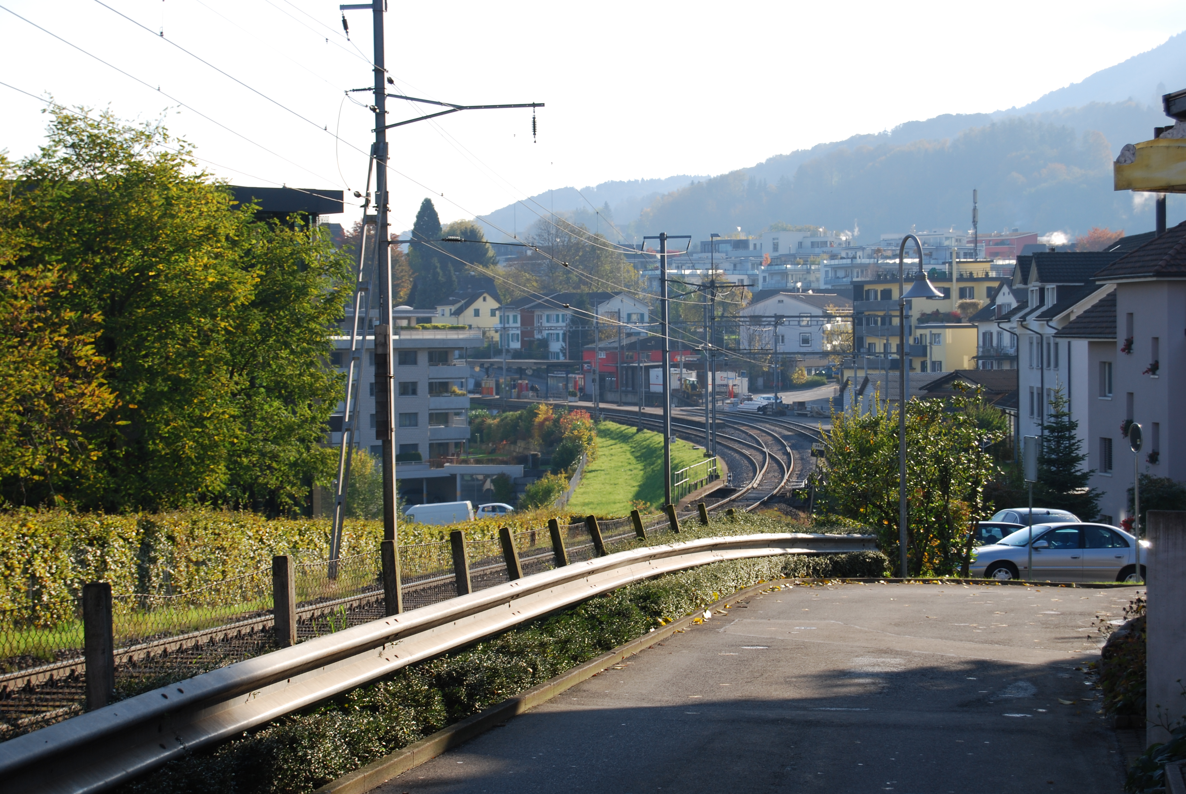 Train station of Wollerau, canton of Schwyz, SwitzerlandEsperanto: Stacidomo de Wollerau, Kantono Ŝvico, Svislando